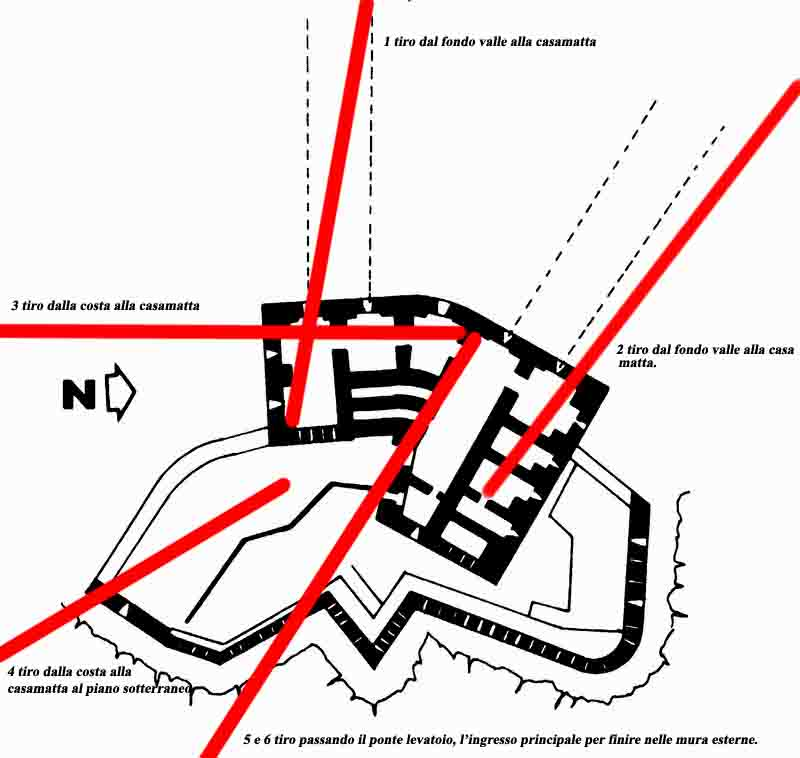 Engage of U.S. Artillery in 1944 of Fort Monte/Mollinary